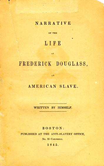 The title page of the 1845 edition of Narrative of the Life of Frederick Douglass, An American Slave